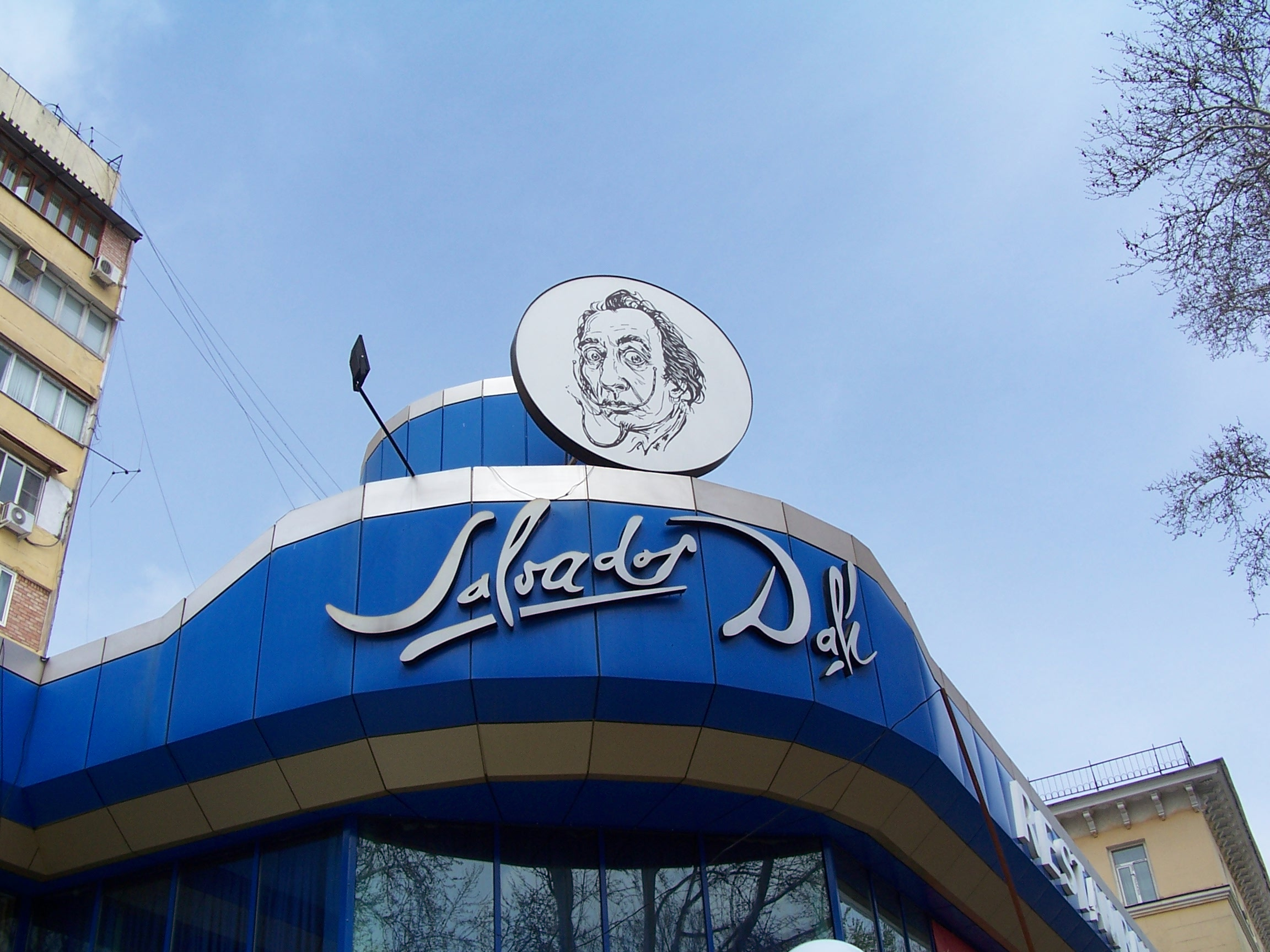 Salvador Dalí restaurant, TashkentOʻzbekcha/ўзбекча: Salvador Dalí tamaddixonasi, Toshkent